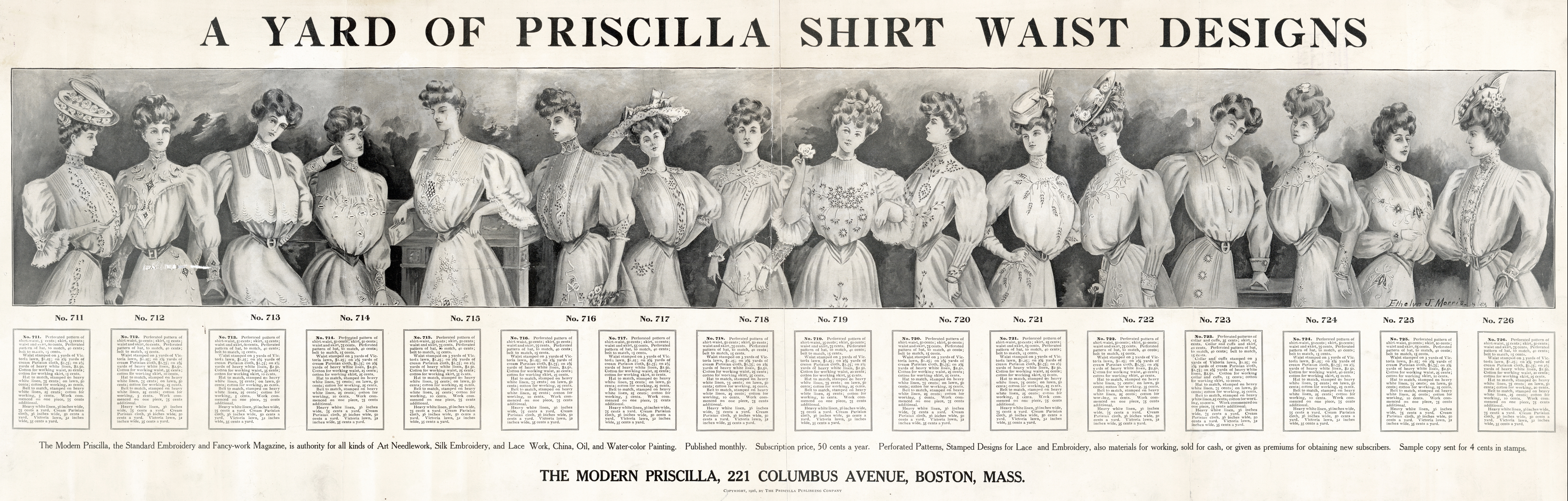 "A yard of Priscilla shirt waist designs." Advertisement for sewing patterns by "The Modern Priscilla", a needlework magazine, showing 16 different designs for shirtwaists, with details about patterns and materials. "The Modern Priscilla, the Standard Embroidery and Fancy-work Magazine, is authority for all kinds of Art Needlework, Silk Embroidery, and Lace Work, Chine, Oil, and Water-color Painting. Published monthly. Subscription price, 50 cents a year. Perforated Patterns, Stamped Designs for Lace and Embroidery, also materials for working, sold for cash, or given as premiums for obtaining new customers. Sample copy sent for 4 cents in stamps."